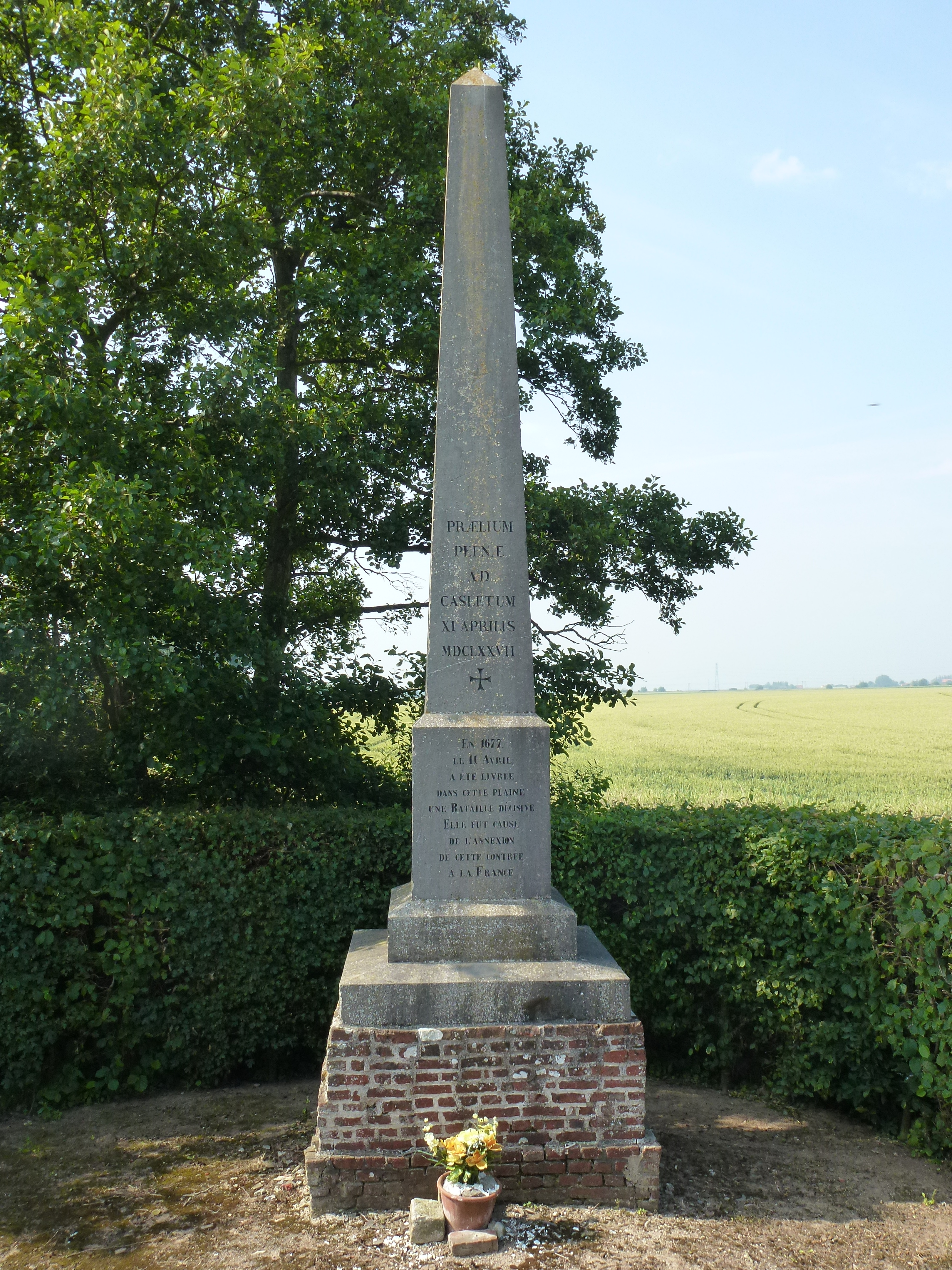 Noordpeene (Nord, Fr) war memorial of battle of Peene.